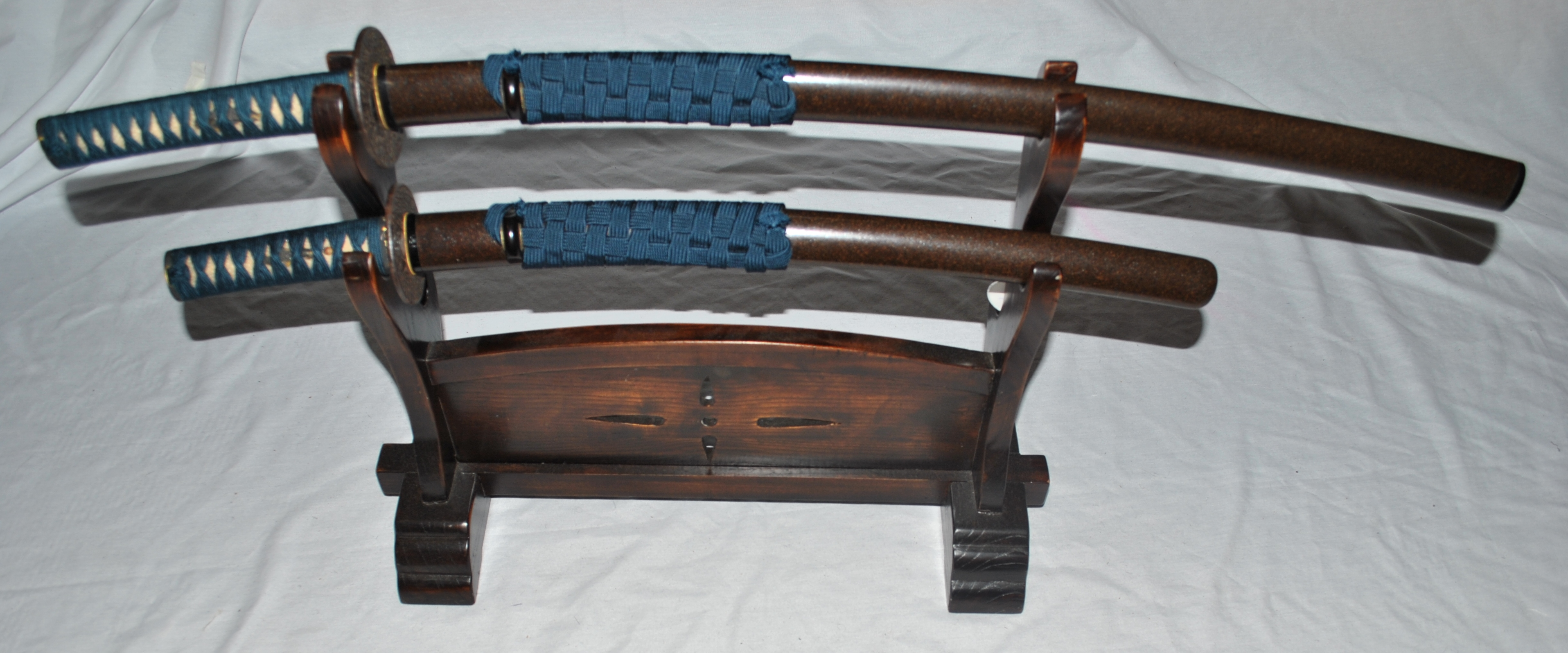 Antique Japanese (samurai) daisho koshirae.